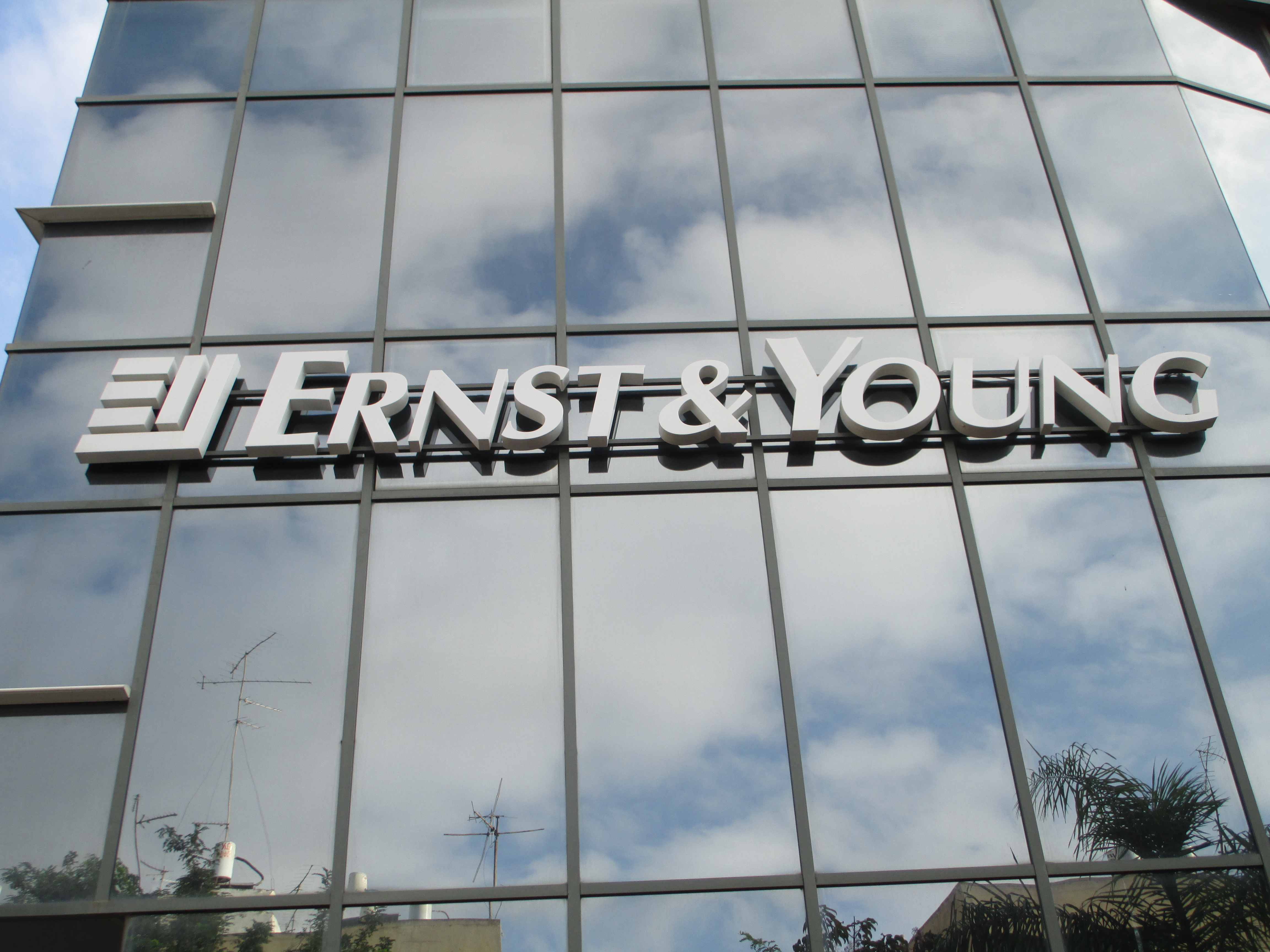 ernst & young heaquarters in tel aviv